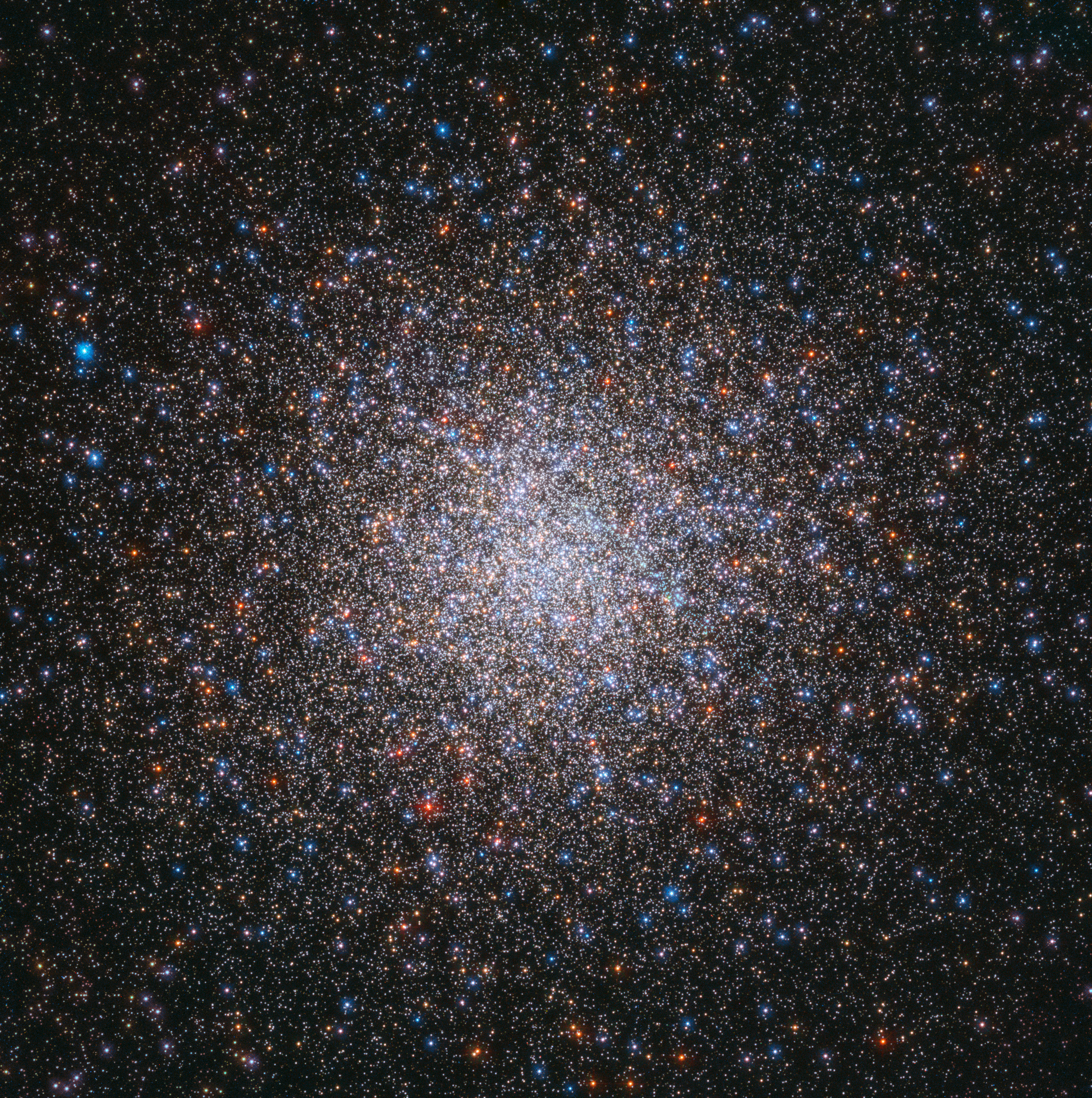 The largest of its kind Star clusters are commonly featured in cosmic photoshoots, and are also well-loved by the keen eye of the NASA/ESA Hubble Space Telescope. These large gatherings of celestial gems are striking sights — and the subject of this Picture of the Week, Messier 2, is certainly no exception. Messier 2 is located in the constellation of Aquarius (The Water-Bearer), about 55 000 light-years away. It is a globular cluster, a spherical group of stars all tightly bound together by gravity. With a diameter of roughly 175 light-years, a population of 150 000 stars, and an age of 13 billion years, Messier 2 is one of the largest clusters of its kind and one of the oldest associated with the Milky Way. This Hubble image of Messier 2’s core was created using visible and infrared light. Most of the cluster’s mass is concentrated at its centre, with shimmering streams of stars extending outwards into space. It is bright enough that it can even be seen with the naked eye when observing conditions are extremely good. Credit: ESA/Hubble & NASA, G. Piotto et al. Coordinates Position (RA): 21 33 27.20 Position (Dec): 0° 49' 21.79" Field of view: 2.43 x 2.44 arcminutes Orientation: North is 12.8° right of vertical Colours & filters Band Wavelength Telescope Ultraviolet UV 275 nm Hubble Space Telescope WFC3 Optical u 336 nm Hubble Space Telescope WFC3 Optical B 438 nm Hubble Space Telescope WFC3 .